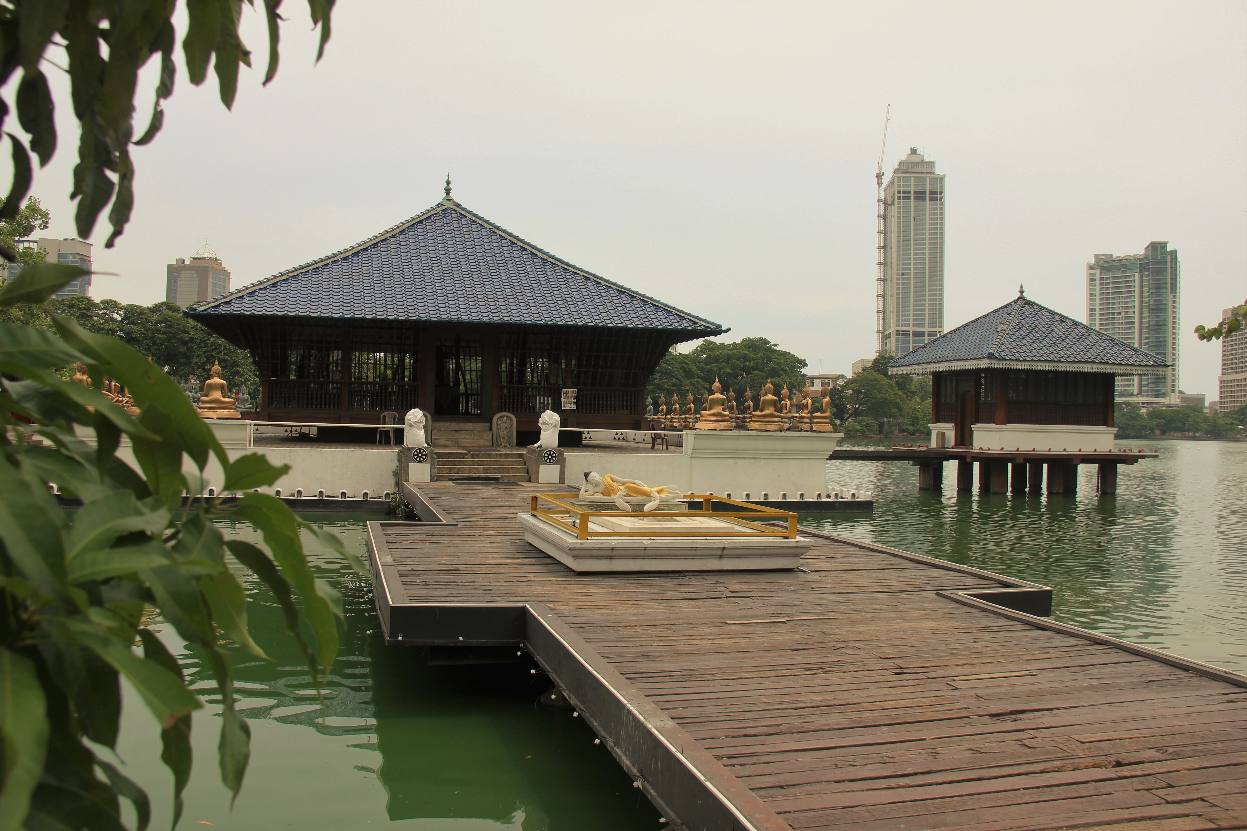 Seema Malaka side view showing main and North side platforms.